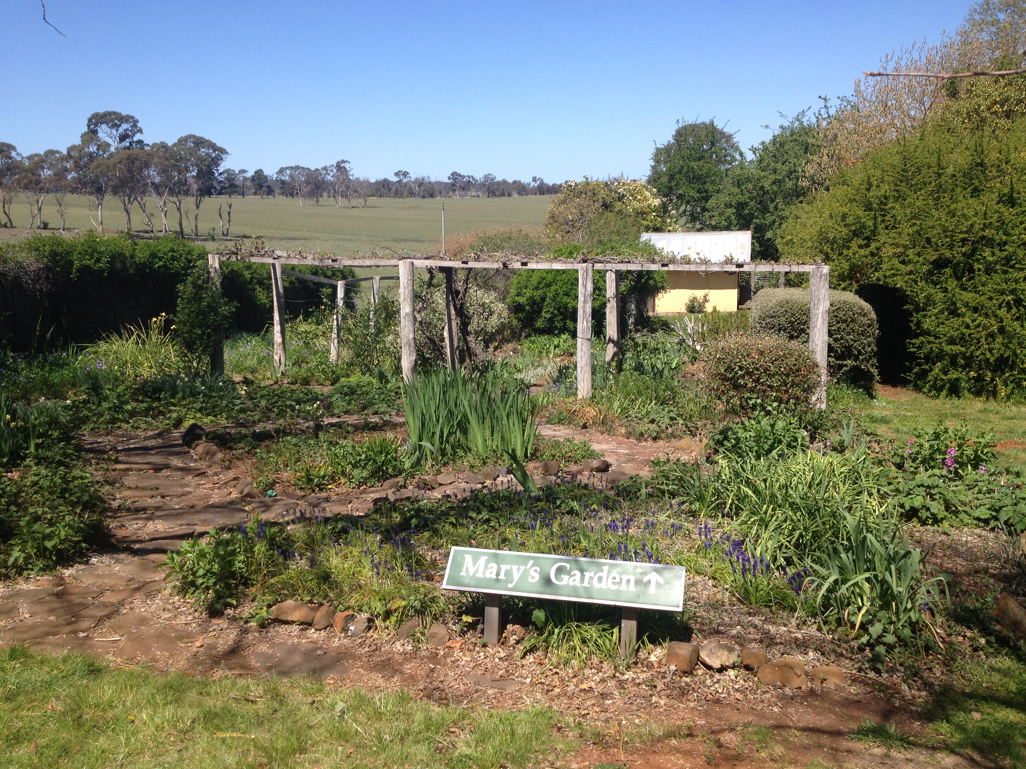 Photograph of Mary's Garden located at Saumarez Homestead, NSW Australia.